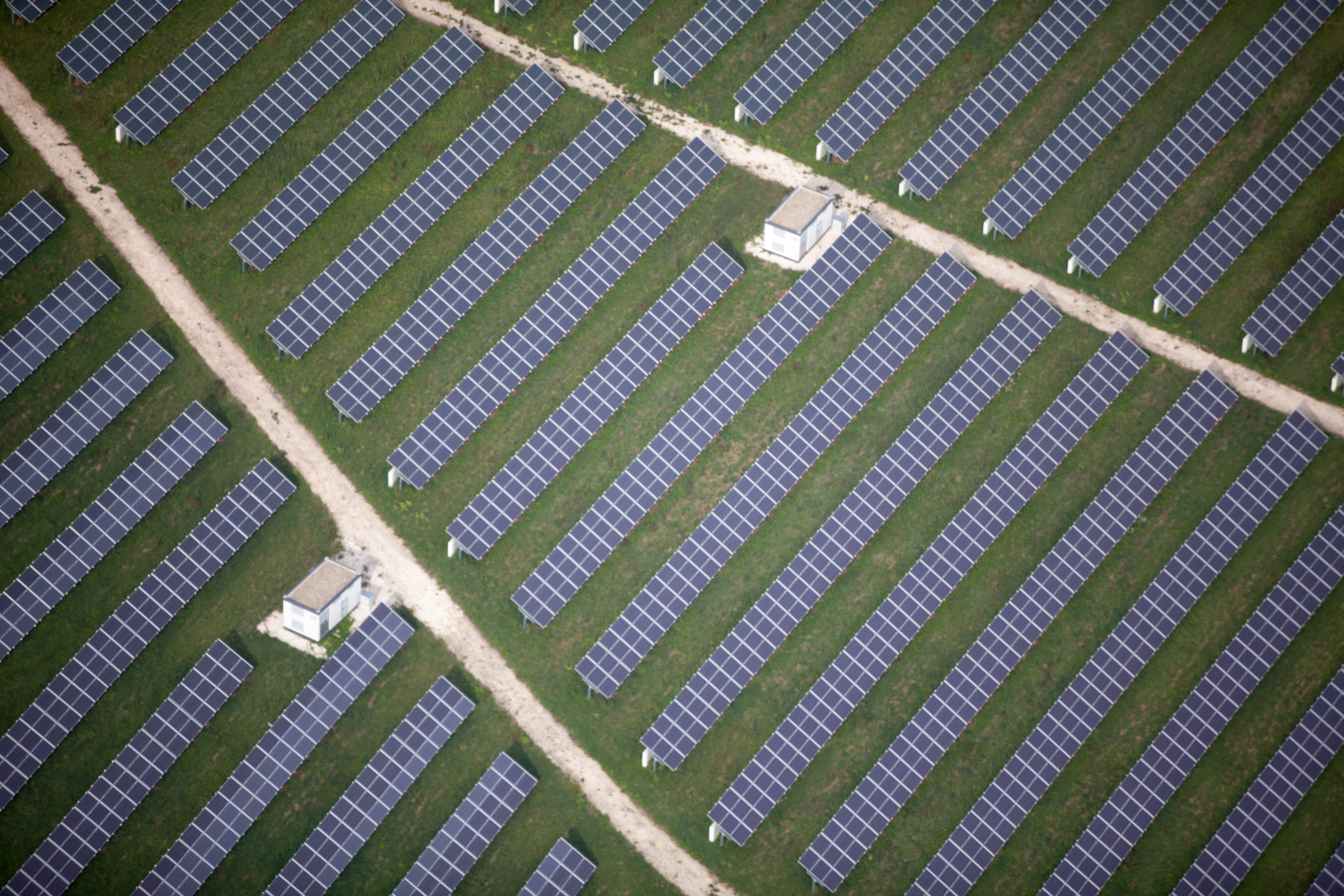 As soon as you fly accross the border into Germany, you see that solar power must be heavily subsidised there. Many fields like this. – likely taken at Tannkosh nearby that area in Baden-Württemberg